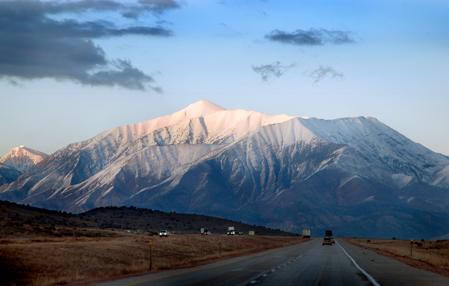 Mount Nebo, Utah, U.S.A. At 11,928 feet (3,636 m), Mount Nebo is the highest peak in Utah's Wasatch Range. This photo is taken from I-15 (at about mile marker 212), south of the peak. February 2005, Nikon D70, Photo by Cory Maylett